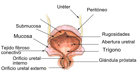 Anatomy of Urinary bladder